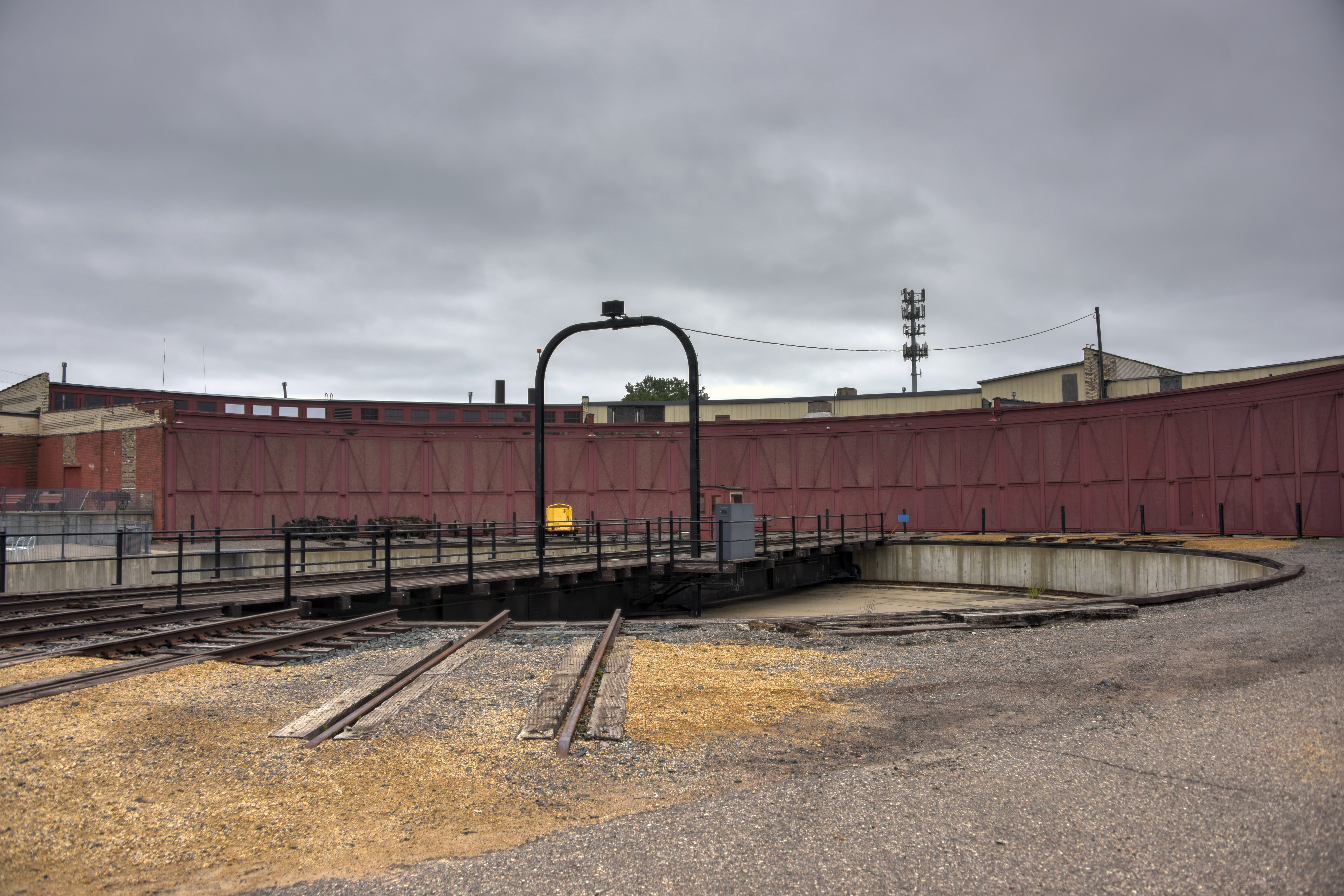 A former Great Northern Railway roundhouse now operated by the Minnesota Transportation Museum.